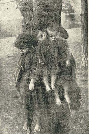 Gypsy children murdered by their mother - Marianna Dolińska